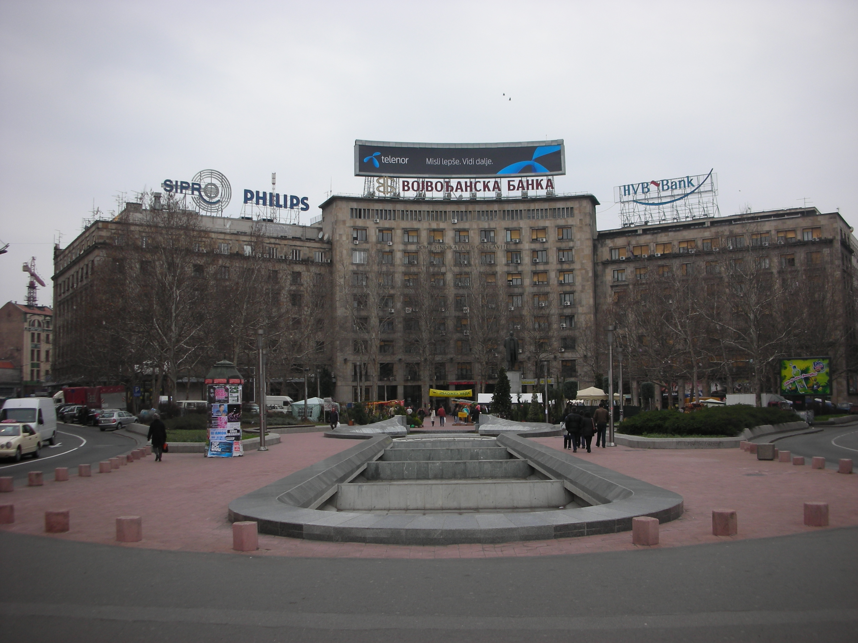 Square of Nikola Pasic in Belgrade.